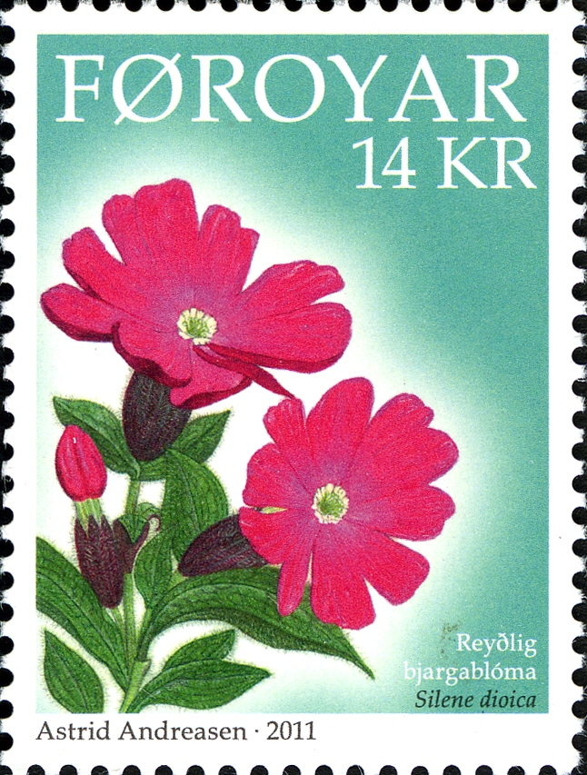 Stamps of the Faroe Islands